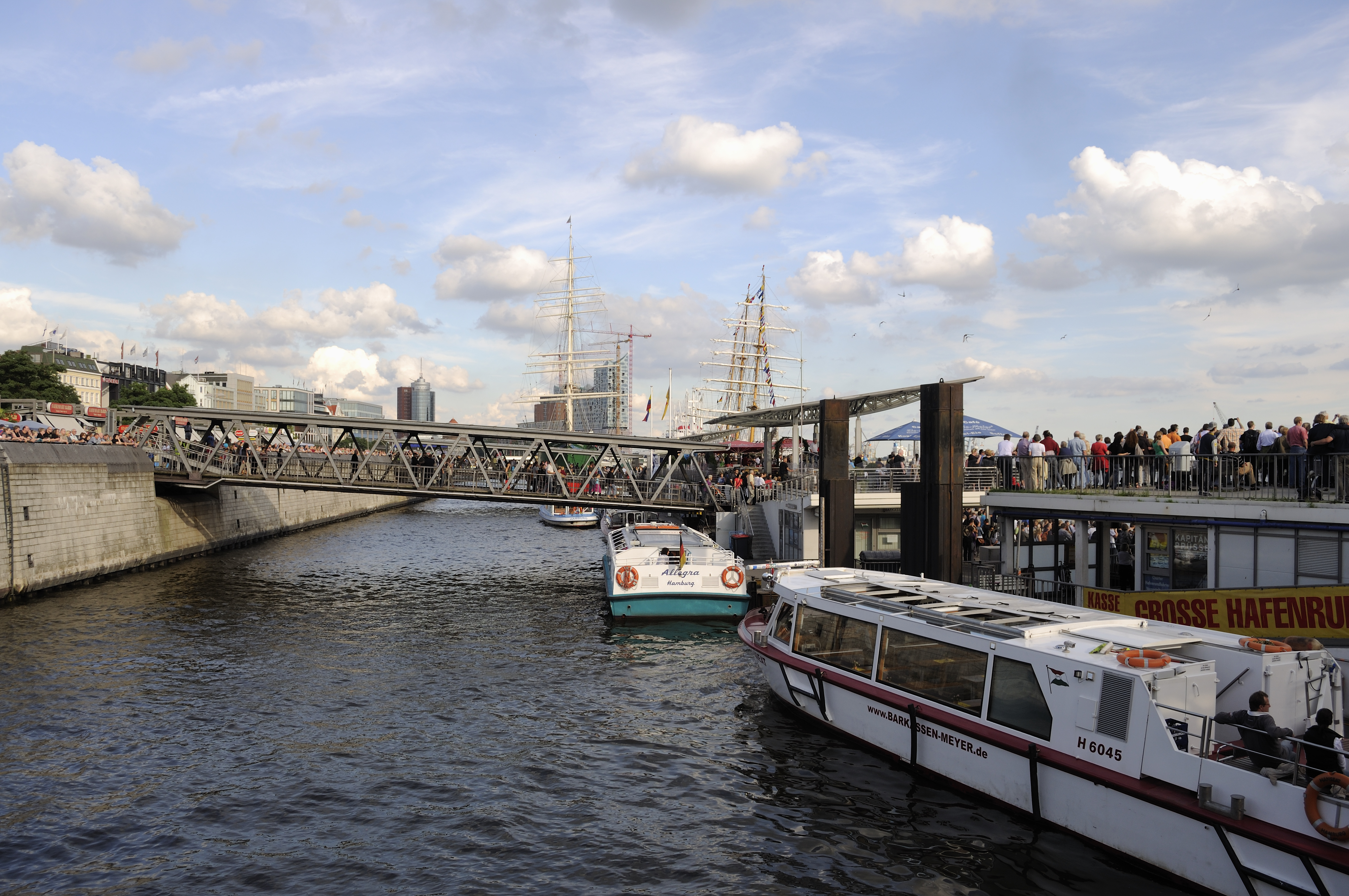 Picture taken in Hamburg. Landungsbrücken.